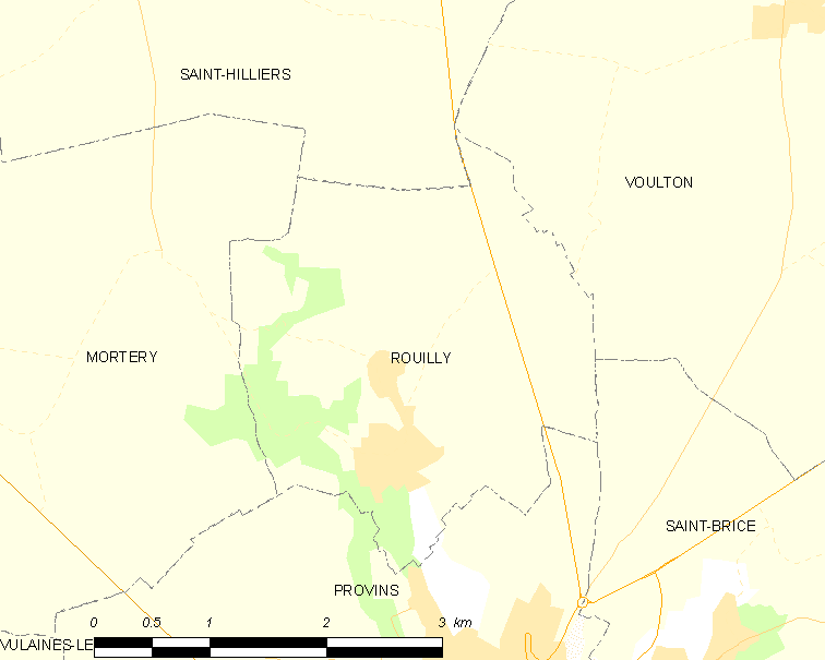 Map of French municipality Rouilly